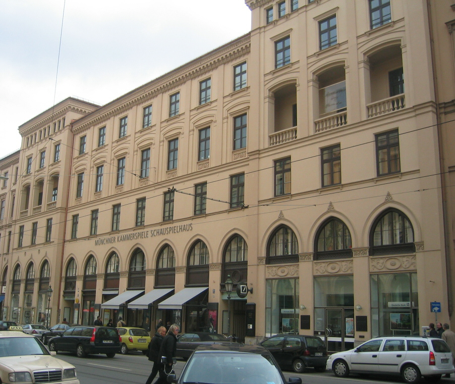 Münchner Kammerspiele drama theatre, Maximilianstraße, München, Germany